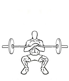 an exercise of thigh